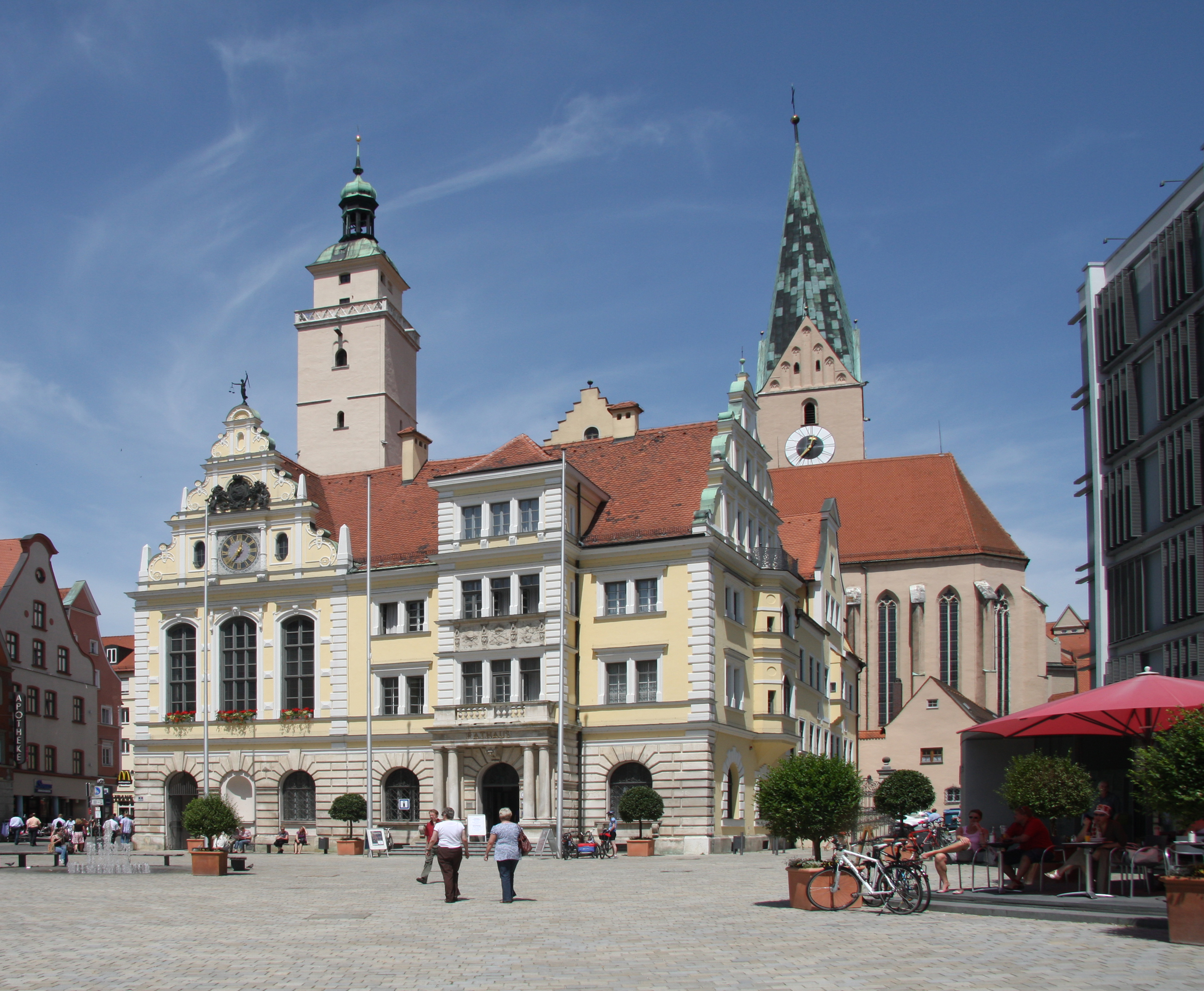 Ingolstadt town hall